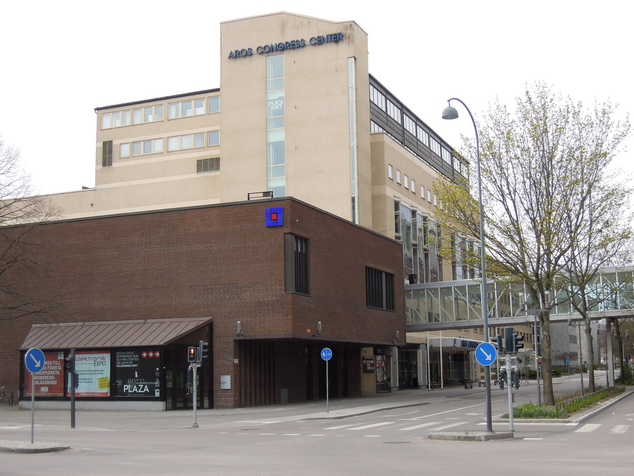 Aros Congress center in Västerås